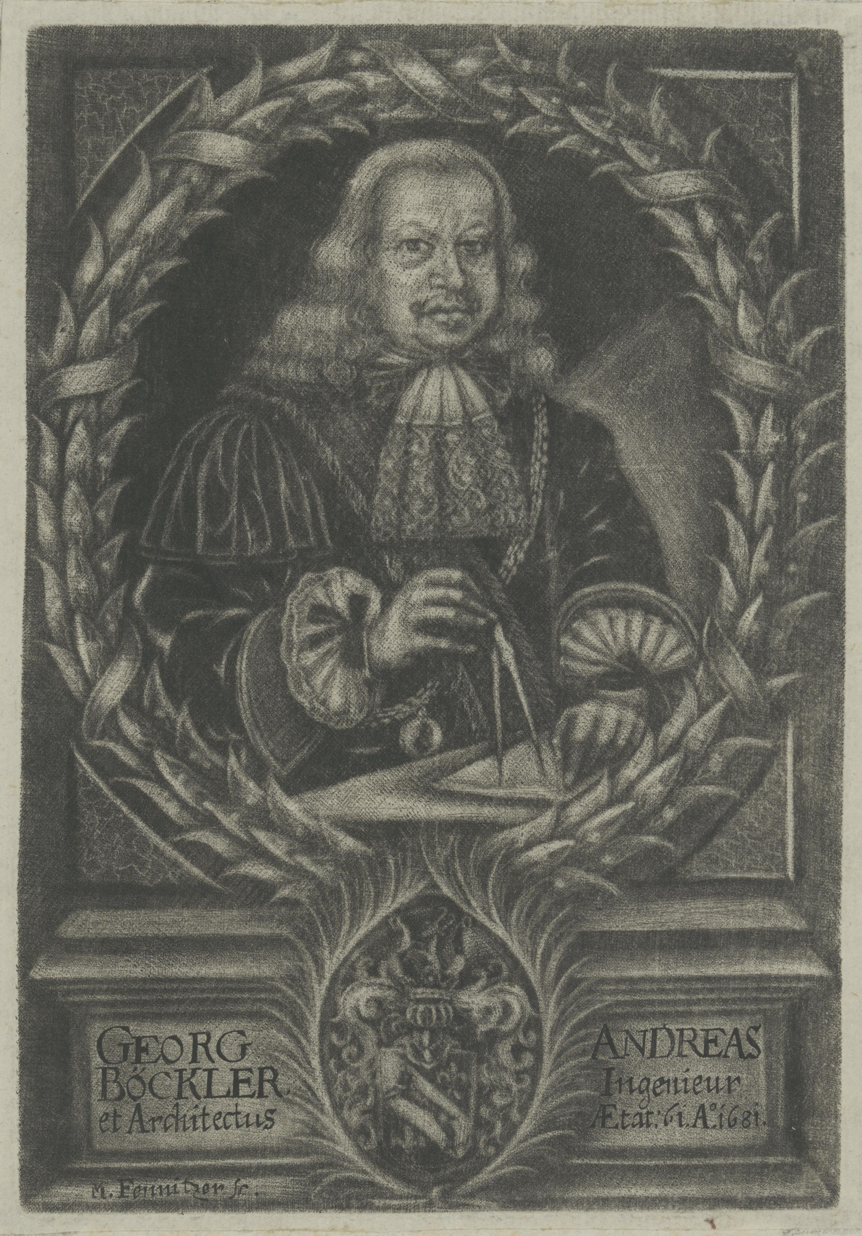 Depicted person: Georg Andreas Böckler